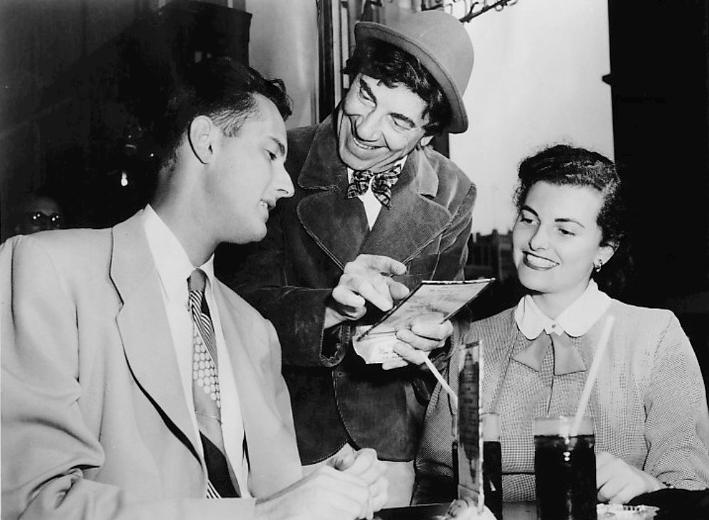 Photo of Chico Marx as the star or a comedy series called The College Bowl. Marx played the proprietor of a college campus malt shop.